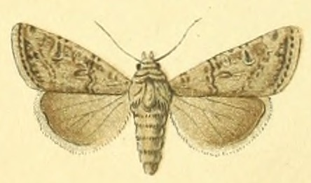 Image from Plate 6 of Die Gross-Schmetterlinge der Erde (The Macrolepidoptera of the World) Vol. 3